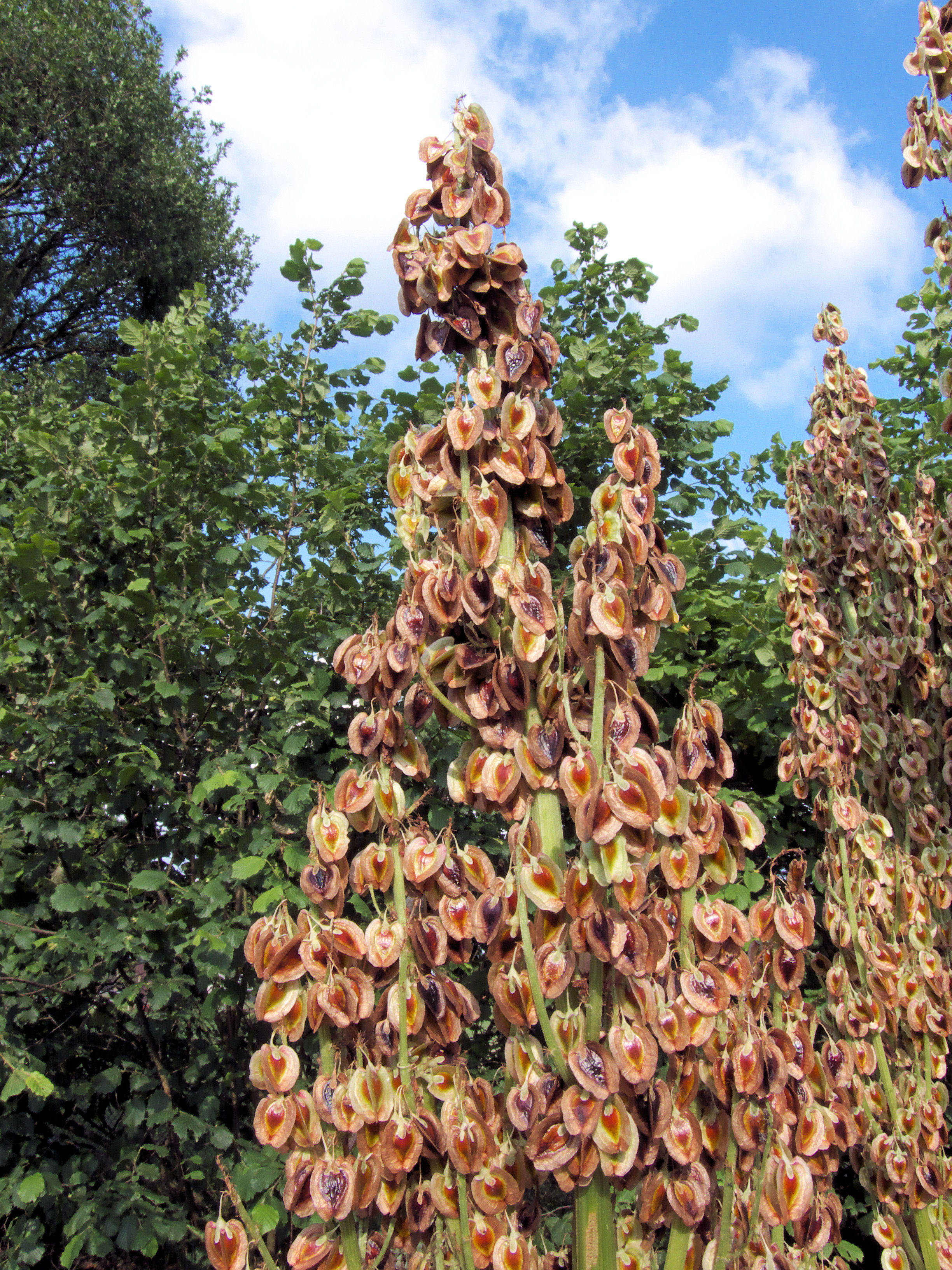 Rheum rhabarbarum fruits